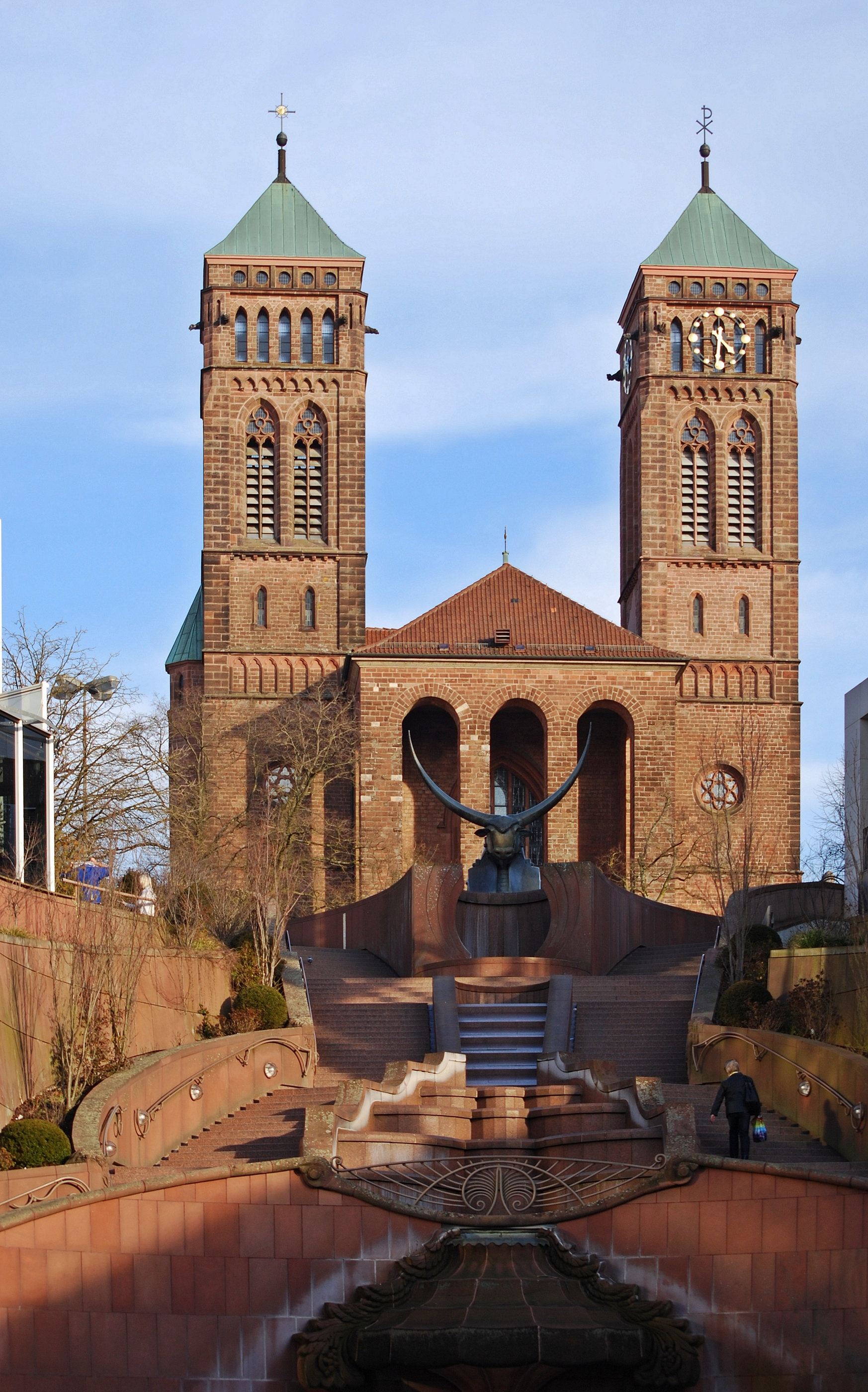 The Catholic parish church St. Pirmin and the Schloßbrunnen in the city of Pirmasens, Rhineland-Palatinate.